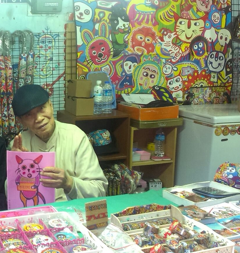 说明